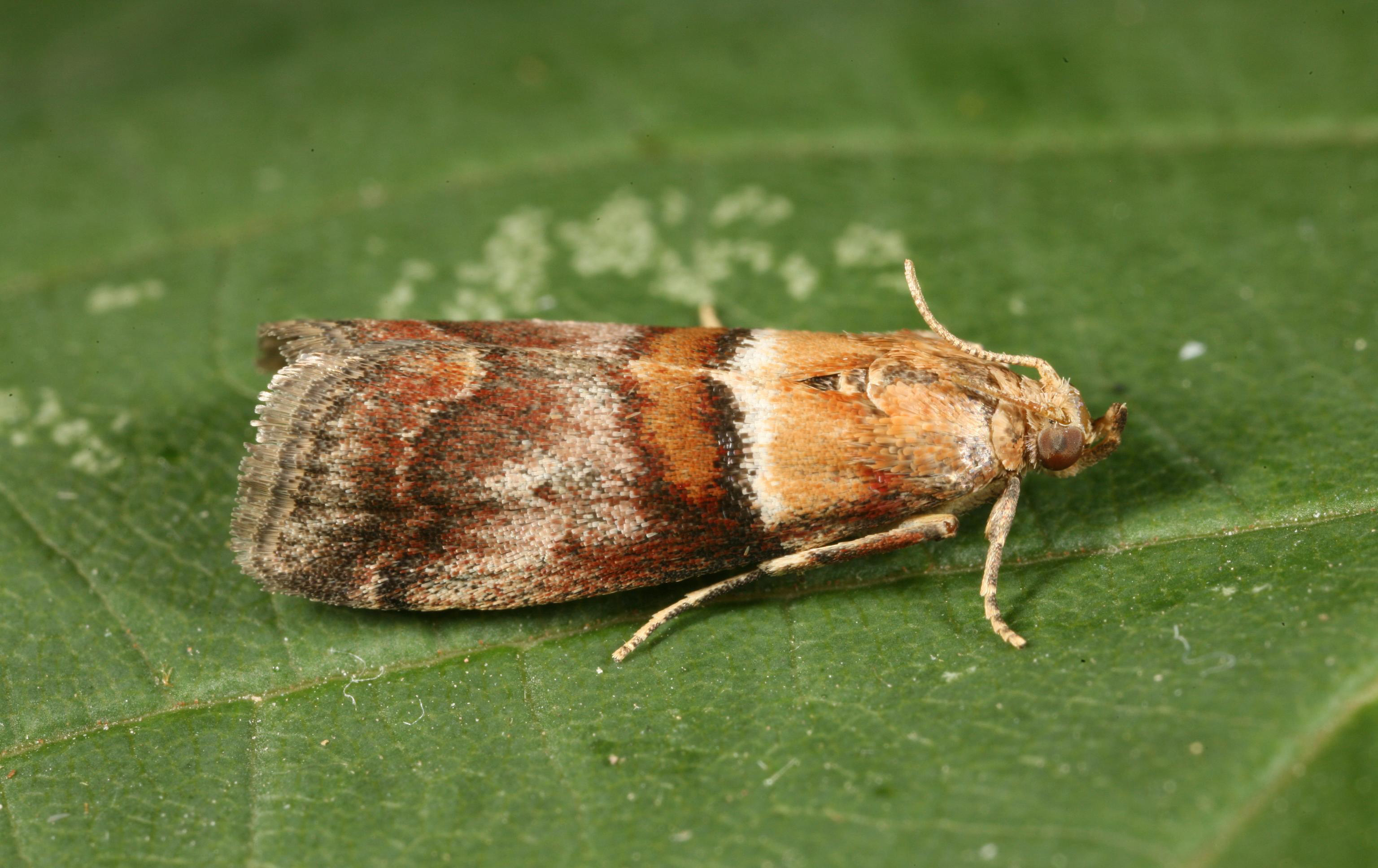 Acrobasis tumidana Host: oak Quercus spp. L. Common Name: Pyralid moth Photographer: Gyorgy Csoka, Hungary Forest Research Institute, Hungary Descriptor: Adult(s) Image taken in: United States